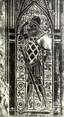 Almeric, Lord St Amand